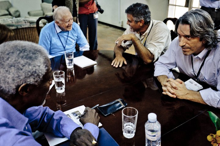 John Prendergast and George Clooney mtg. with President Carter and Kofi Annan